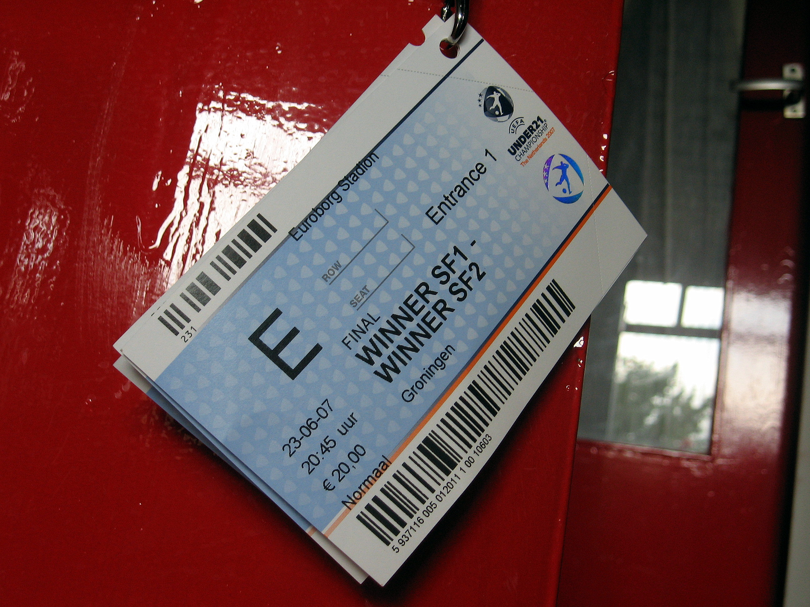 Tickets for the Under 21 Championship final of 2007, in the Euroborg in Groningen, The Netherlands.